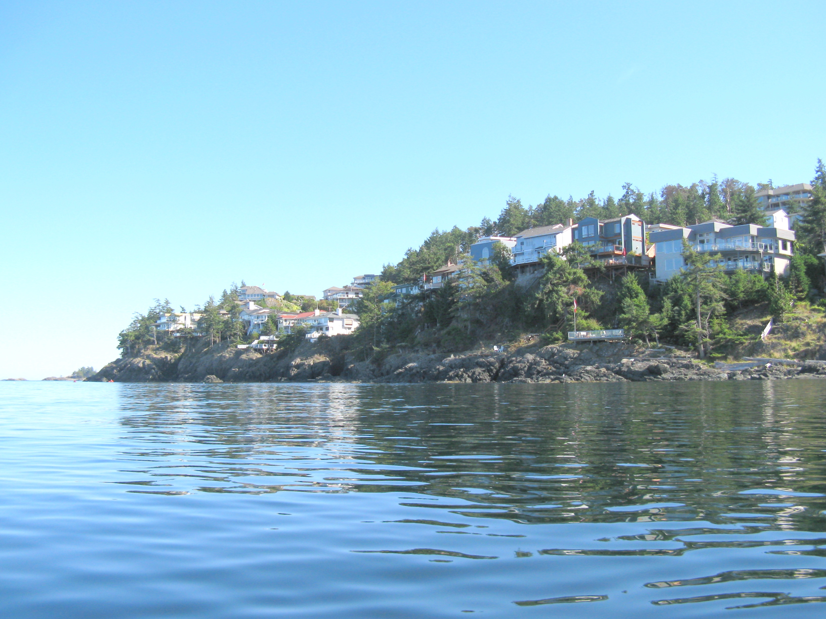 Unless you're looking for white water there are usually some September days perfect for kayaking. This one, for example. Paradise, or what? At the extreme left, barely visible on the horizon, are the rocks at Neck Point on which a couple of turkey vultures posed for a picture as I drifted by.